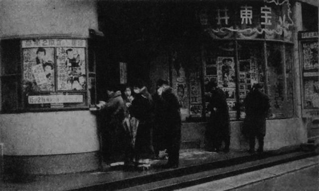 Movie theater "Fukui Tōhō" Fukui, Japan